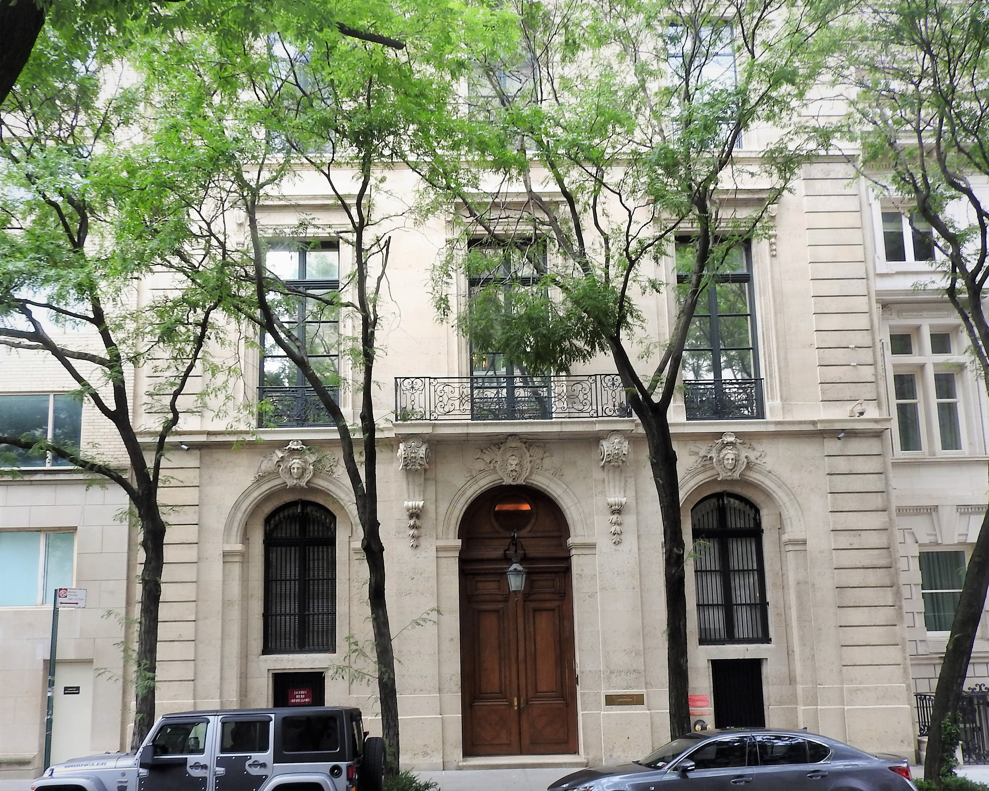 Looking north across 71st at lower stories of house